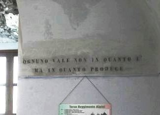 Written inside the Fenestrelle Fort